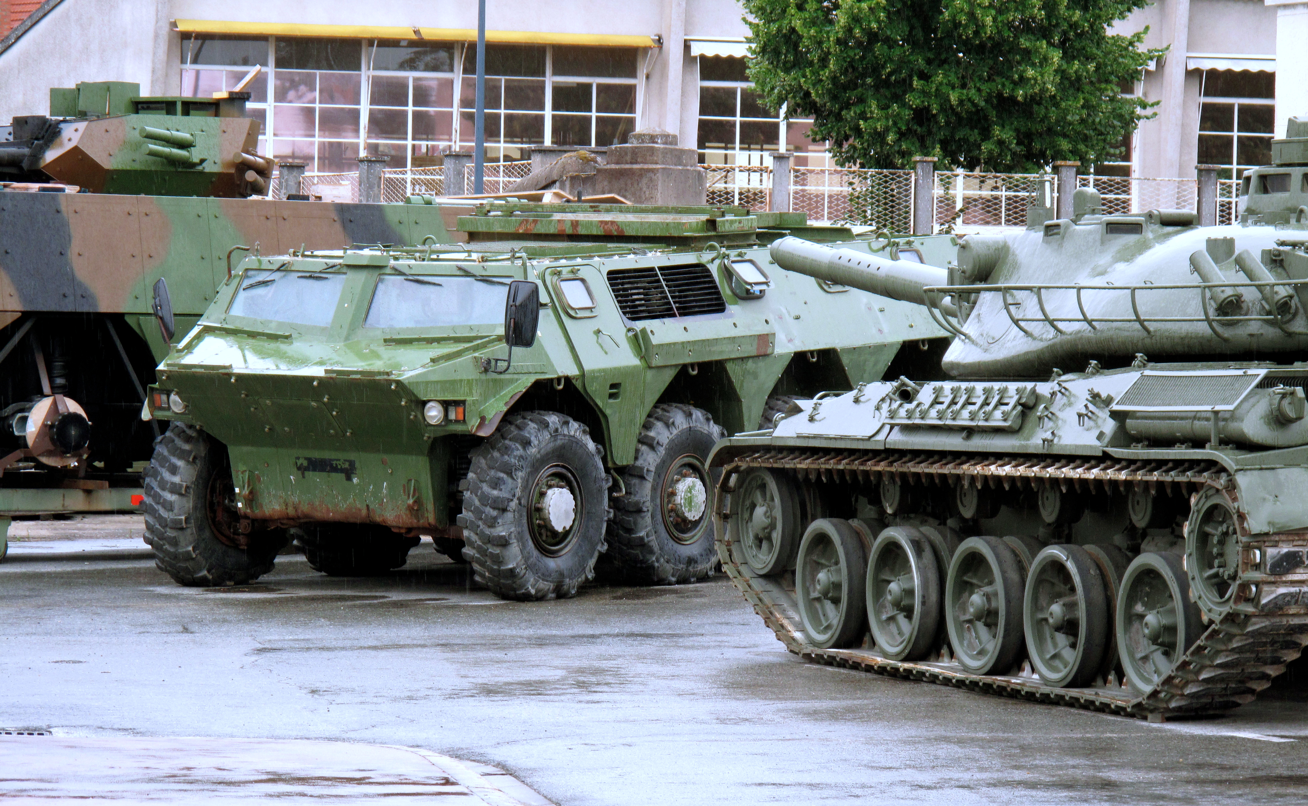 From left to right: VCBI (background), Renault X8A, and AMX-30 battle tank. On display at Saumur Général Estienne museum.